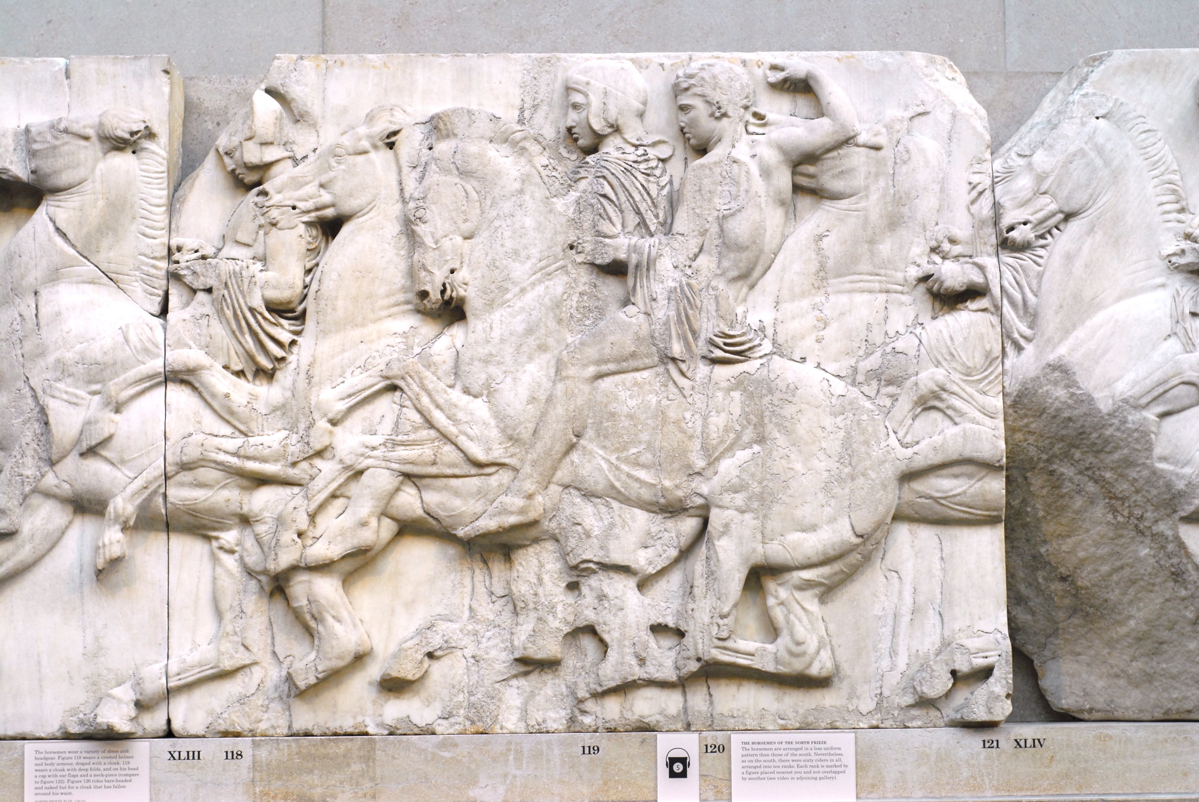 Cavalcade. Block XLIII from the north frieze of the Parthenon, ca. 447–433 BC.